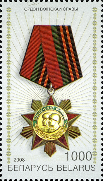 Mark Order of Military Glory